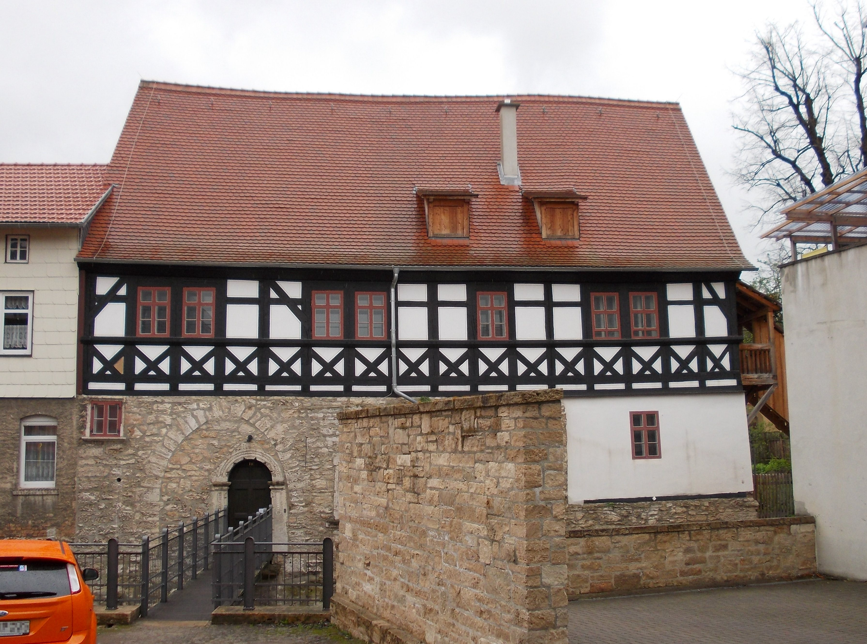 Rosenthal House in Bad Langensalza (Unstrut-Hainich-Kreis, Thuringia)